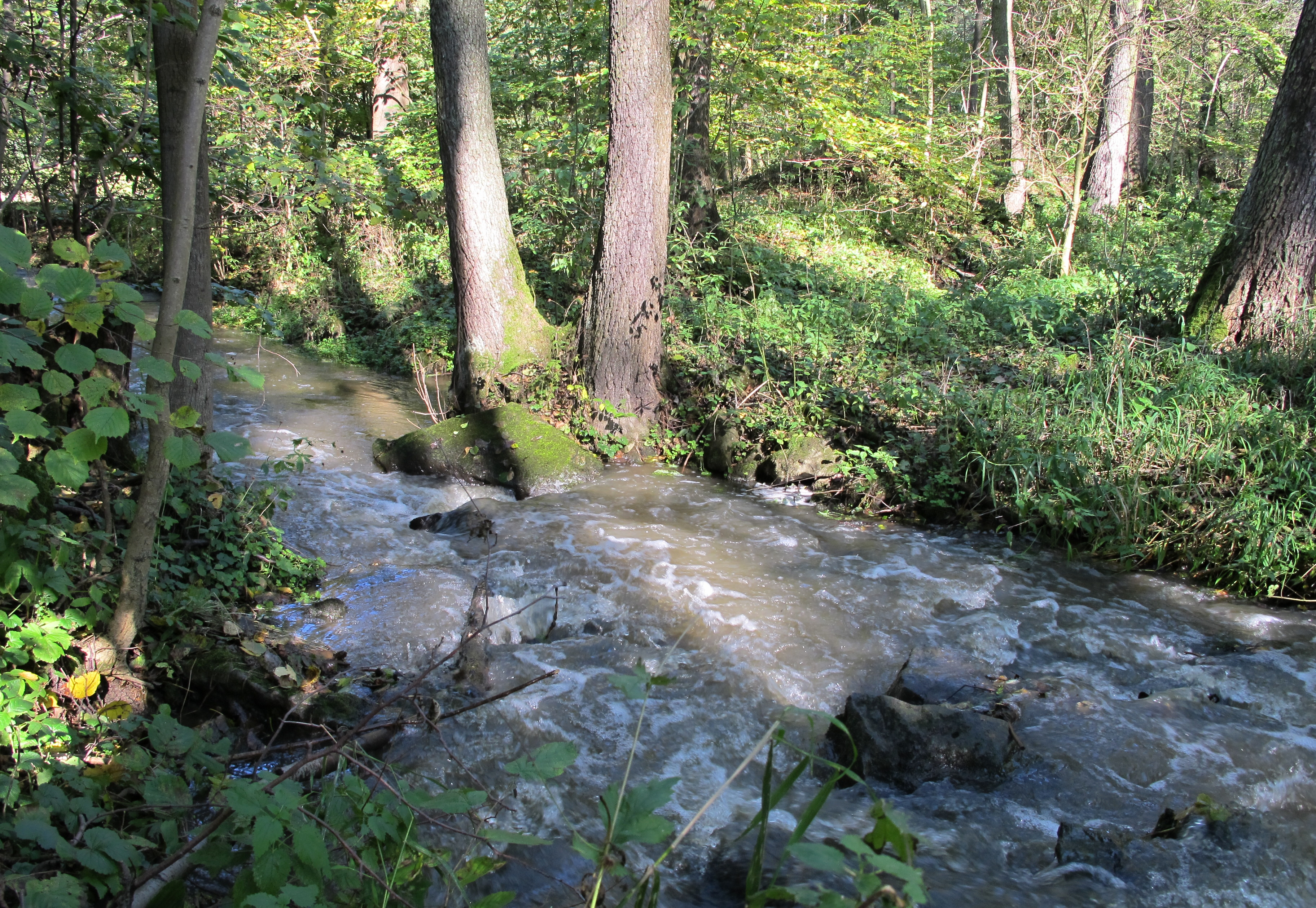 Natural monument Křečovický potok near Křečovice in Benešov District, Czech Republic Project: Chráněná území